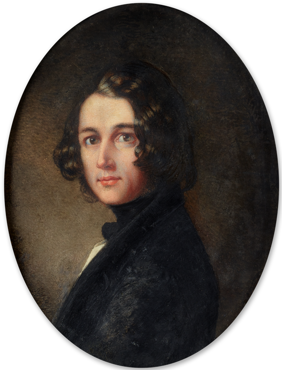 "Portrait of Charles John Huffman Dickens (1812-1870), wearing dark jacket and cravat, white waistcoat, his dark hair worn collar-length in long curls, 1843"